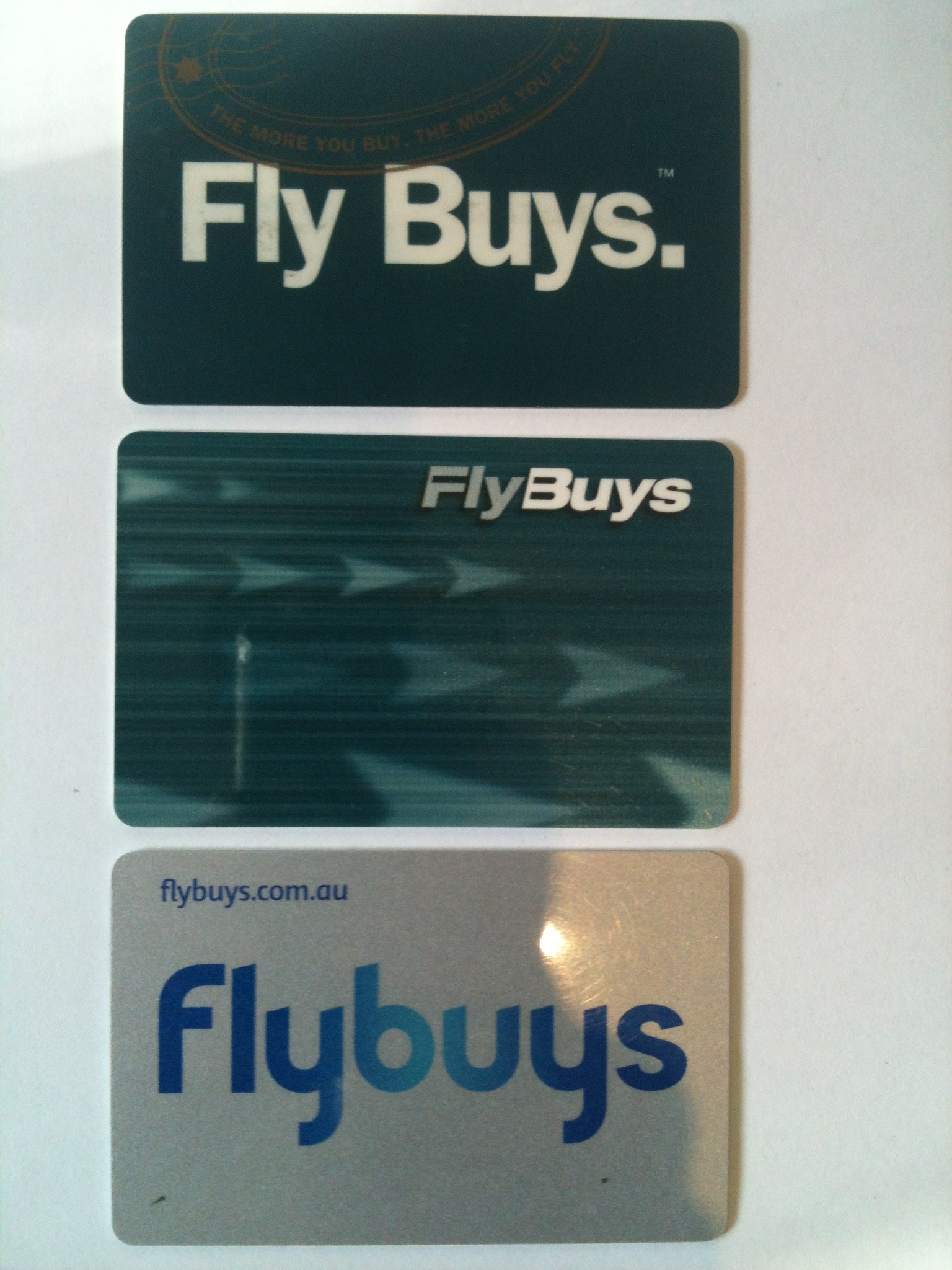 Top - original. Bottom - latest.